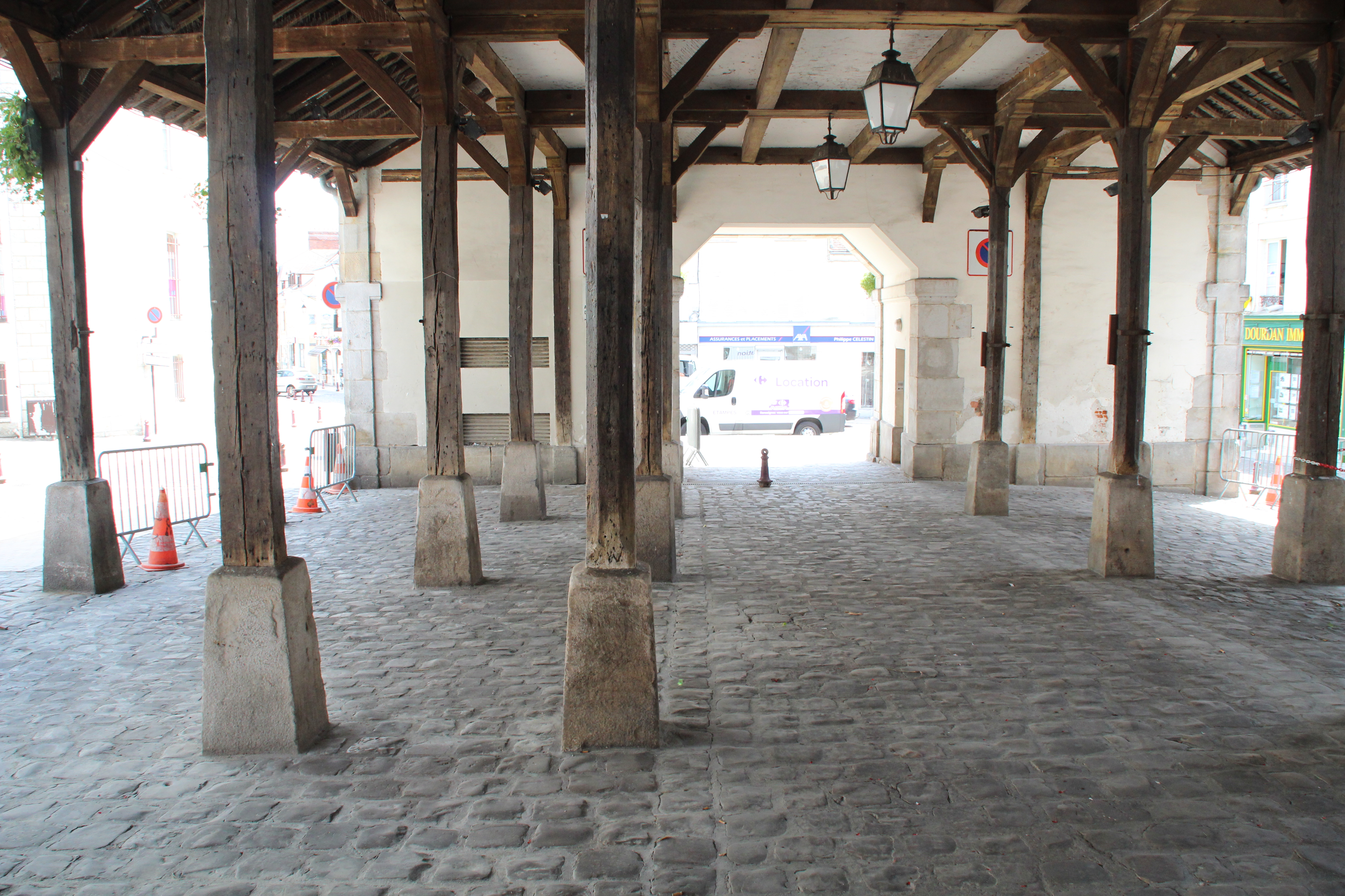 Market hall of Dourdan, France. Object location48° 31′ 45.41″ N, 2° 00′ 44.35″ E This image was uploaded as part of L'Été des villes 2015.